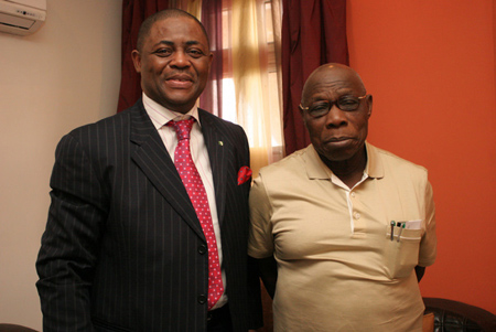 Chief Femi Fani-Kayode (Left) with President Olusegun Obasanjo at a private lunch to honor Fani's 50th birthday.